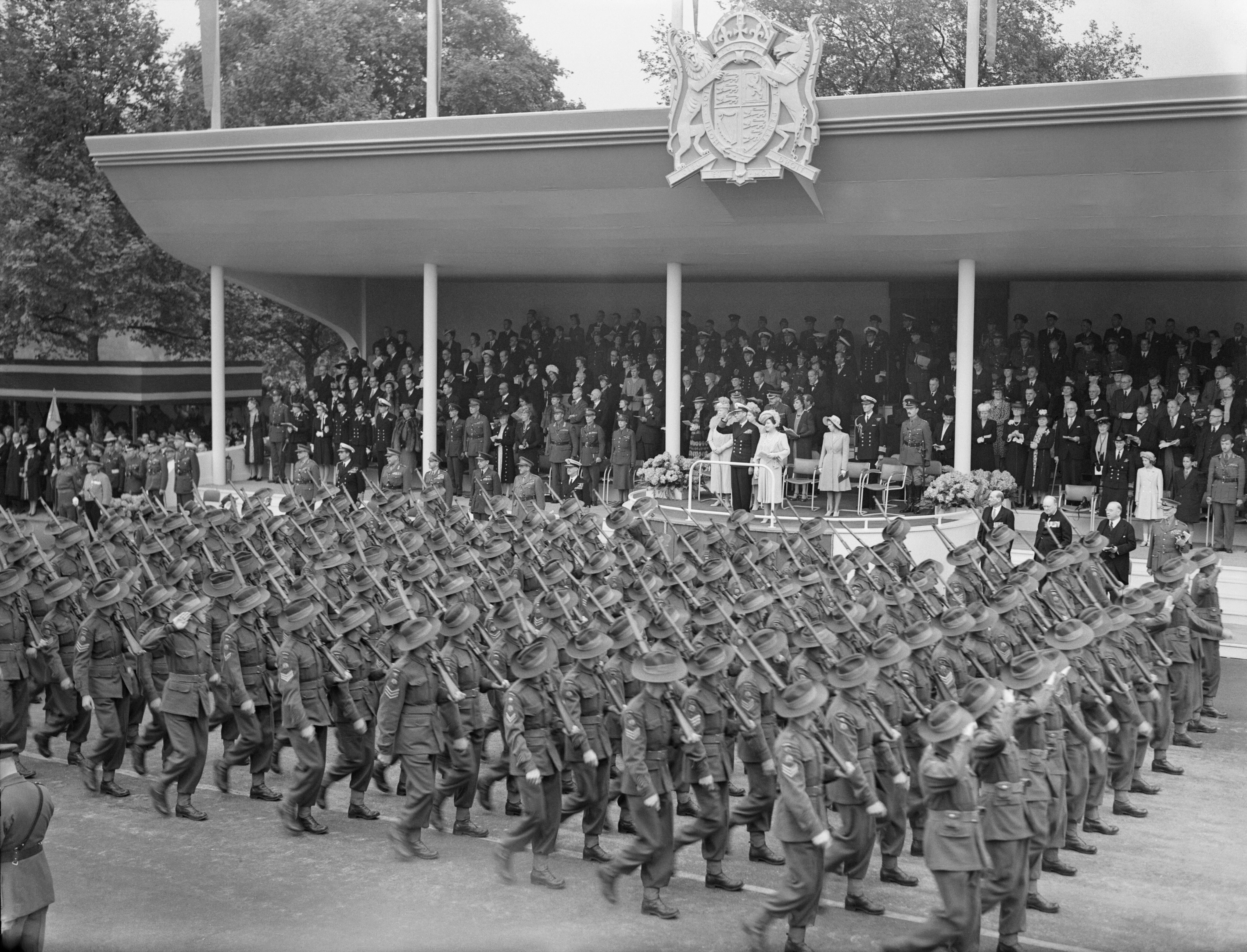 Victory Parade in London, England, UK, 8 June 1946 A contingent of Australian troops march past the Saluting Base in the Mall. HM King George VI and HM Queen Elizabeth stand on the dais, the King taking the Salute. Princesses Elizabeth and Margaret can also be seen, seated further back on the dais.